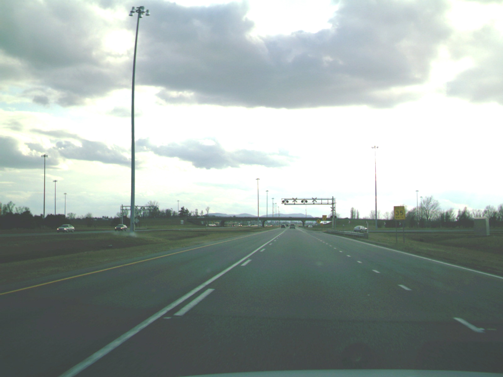 Railroad crossing on westbound Autoroute 20, near Exit 130 in Saint-Hyacinthe, Quebec